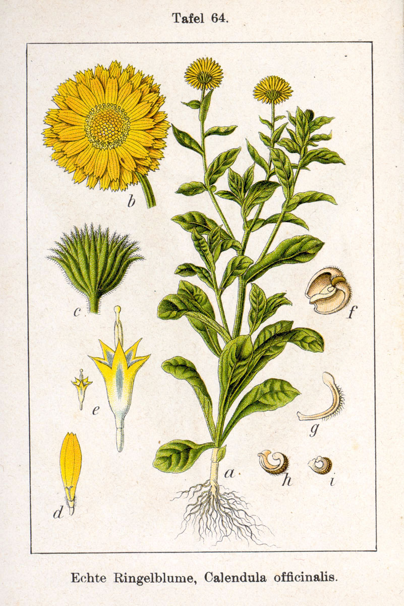 Calendula officinalis L. Original Description Echte Ringelblume, Calendula officinalis